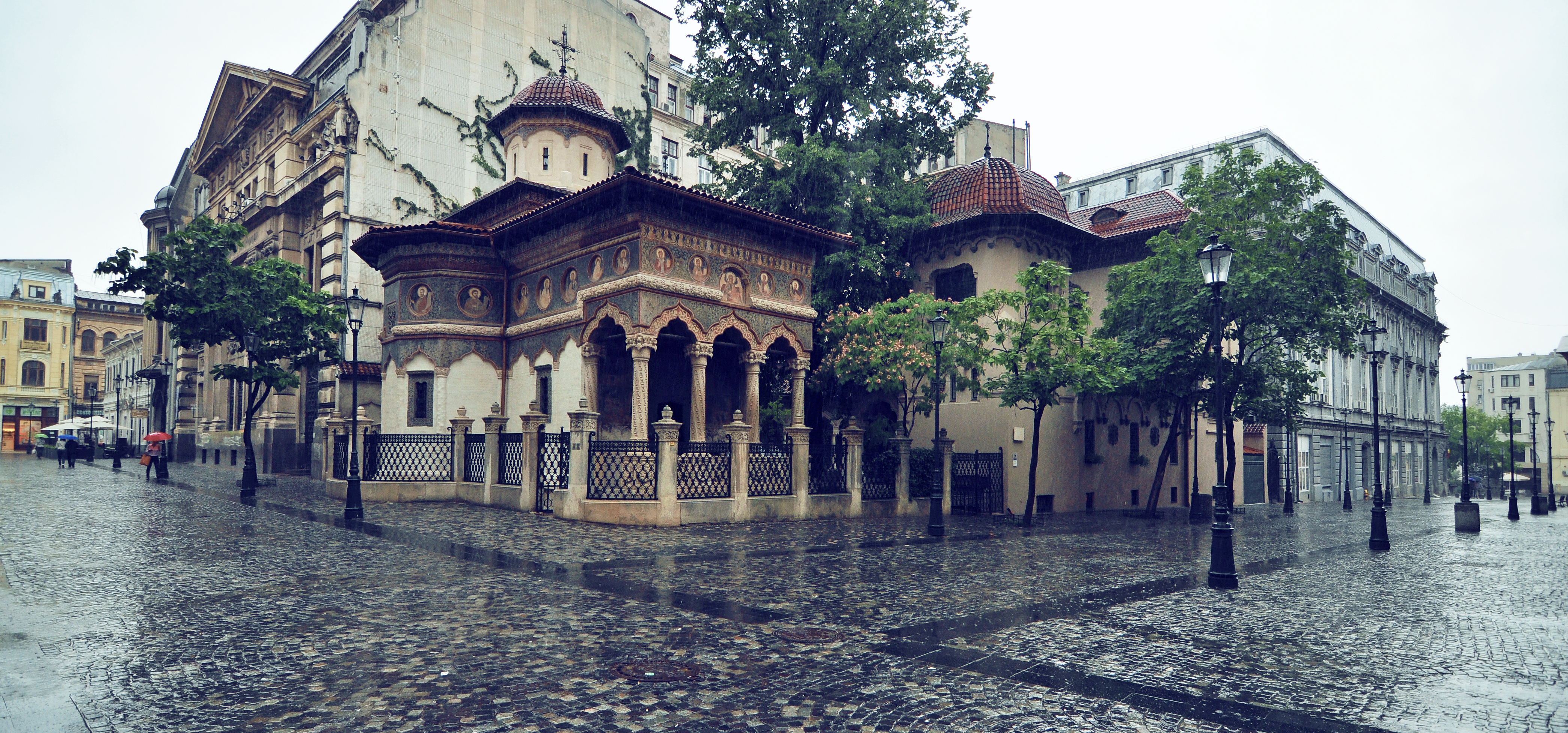 Stavropoleos Monastery, Bucharest, Romania